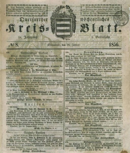 Newspaper stamp, Querfurther Kreisblatt, Germany, from 26. January 1856